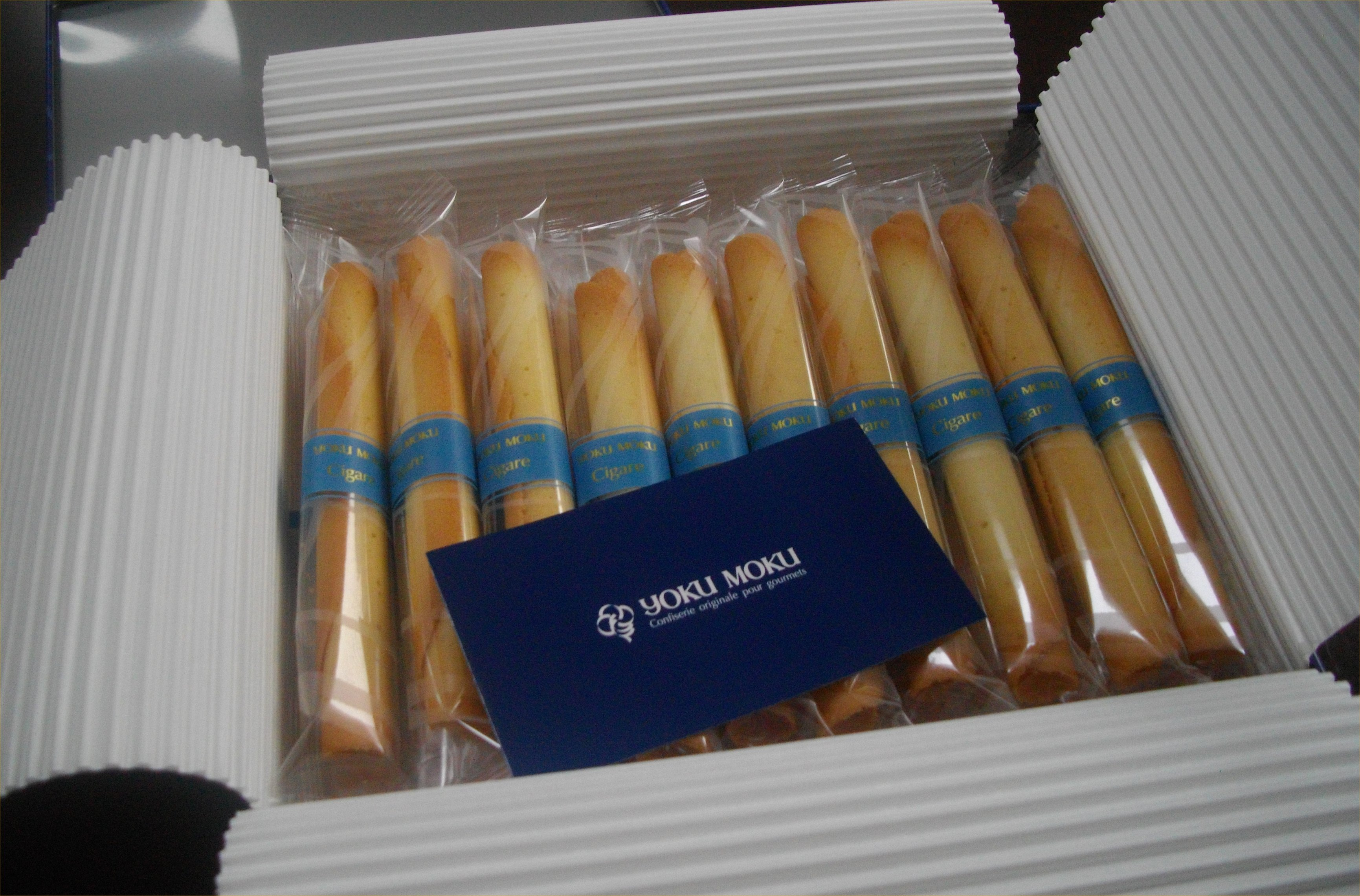 A photo of Yoku Moku's Cigare.("Yoku Moku" is a chain store of cake shops in Japan."Cigare" is a kind of a cookie.)